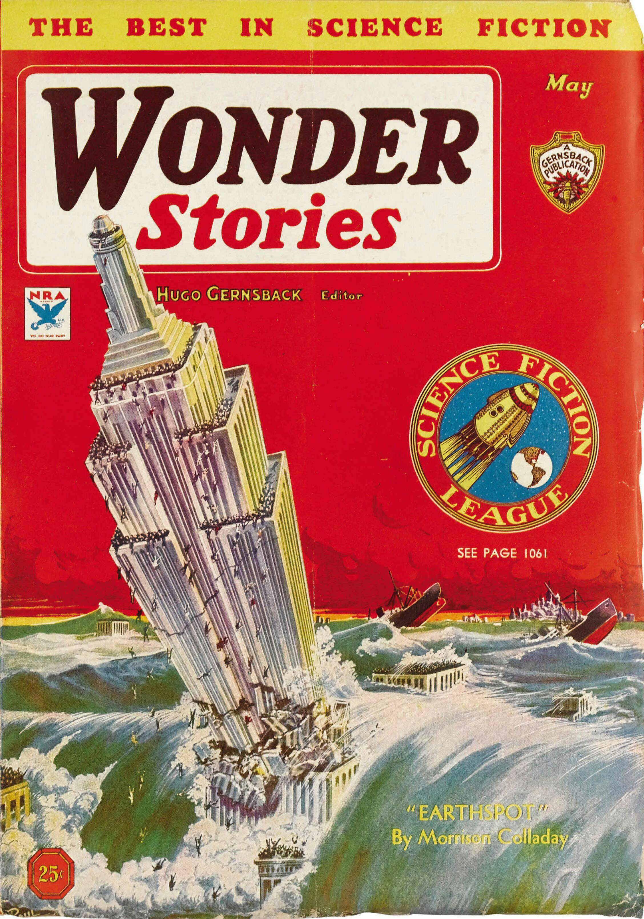 Cover of the pulp magazine Wonder Stories (May 1934, vol. 5, no. 10) featuring Earthshot.